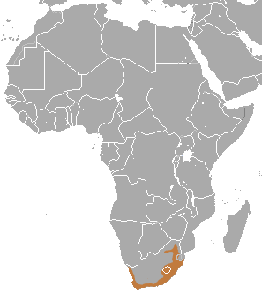 Forest Shrew (Myosorex varius) range